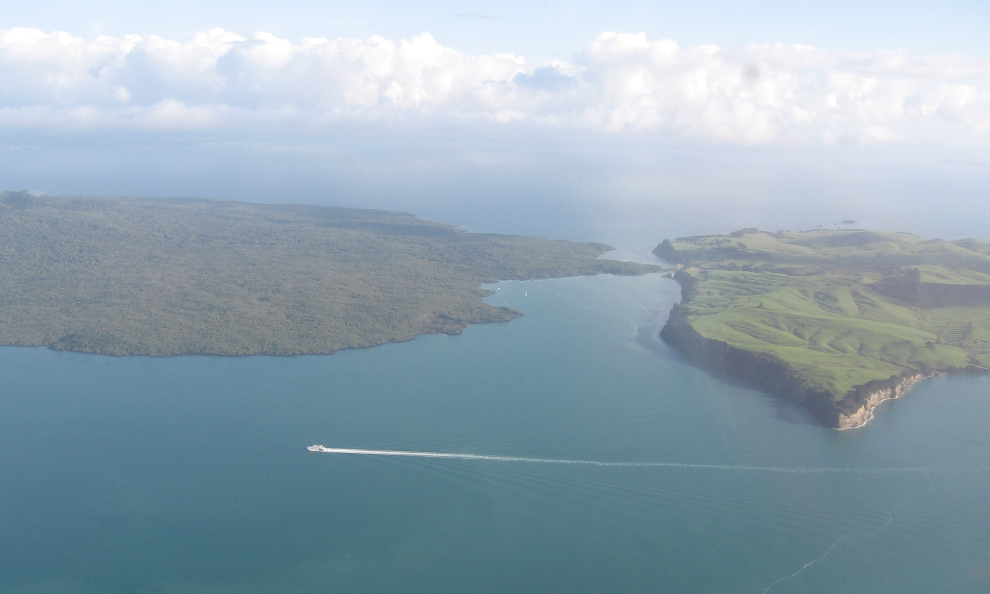 Looking north and west over where Rangitoto Island and Motutapu Island meet in the Hauraki Gulf, New Zealand.